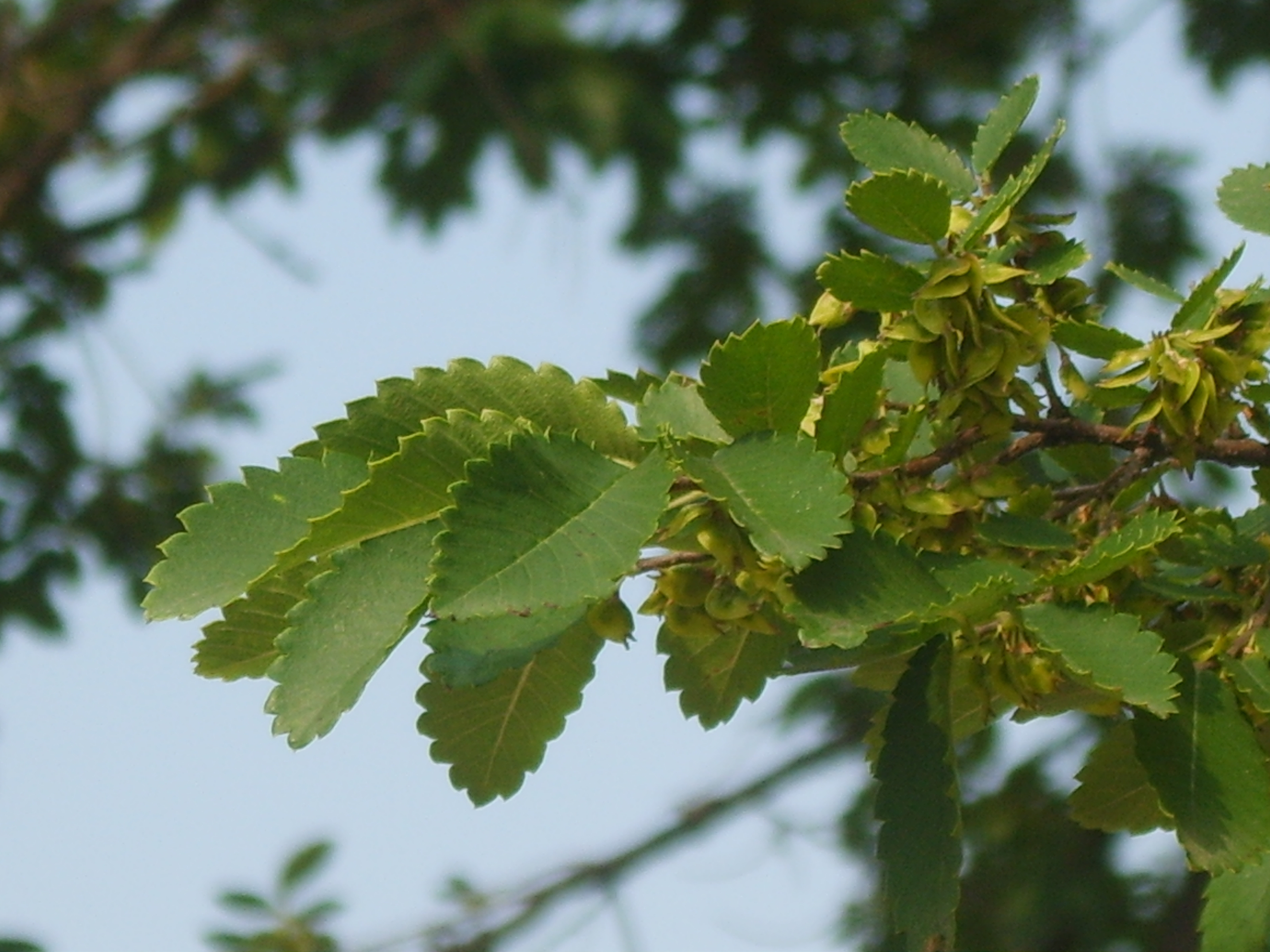 Hemiptelea davidii's fruits around Hyangwonjeong in Gyeongbokgung palace, Korea